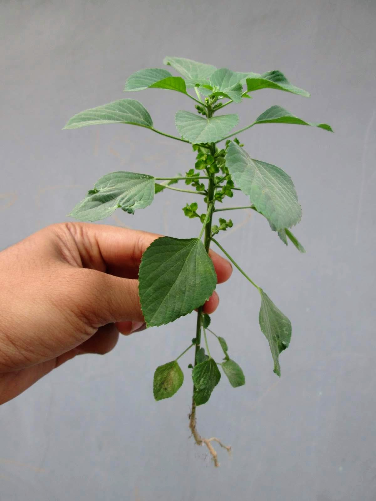 Acalypha indicaJawa: ꦮꦶꦠ꧀ꦏꦸꦕꦶꦁꦒꦭꦏ꧀Bahasa Indonesia: tumbuhan kucing galak